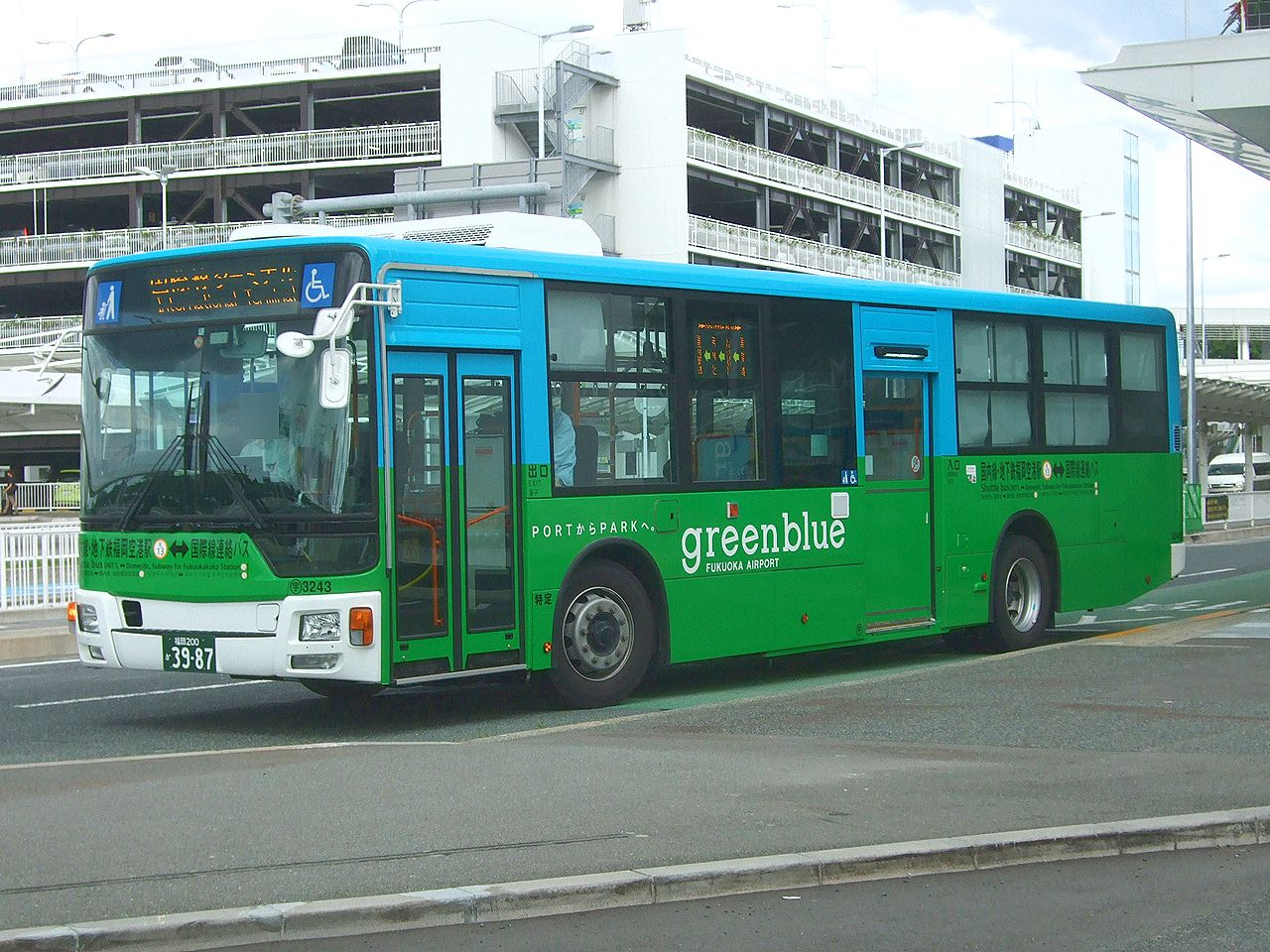 Nishitetsu bus Fukuoka Airport shuttle bus(operated the domestic terminal and international terminal) Company:Nishi-Nippon Railroad Belongs to:Umi Depot Car license:FOF200 KA 3987 Code:3243 Chassis manufacturer:Mitsubishi Fuso Truck and Bus Type:Aero Star Coachbuilder:Mitsubishi Fuso Bus Manufacturing Location:at Fukuoka Airport domestic terminal, in Hakata Ward, Fukuoka City, Fukuoka, Japan.